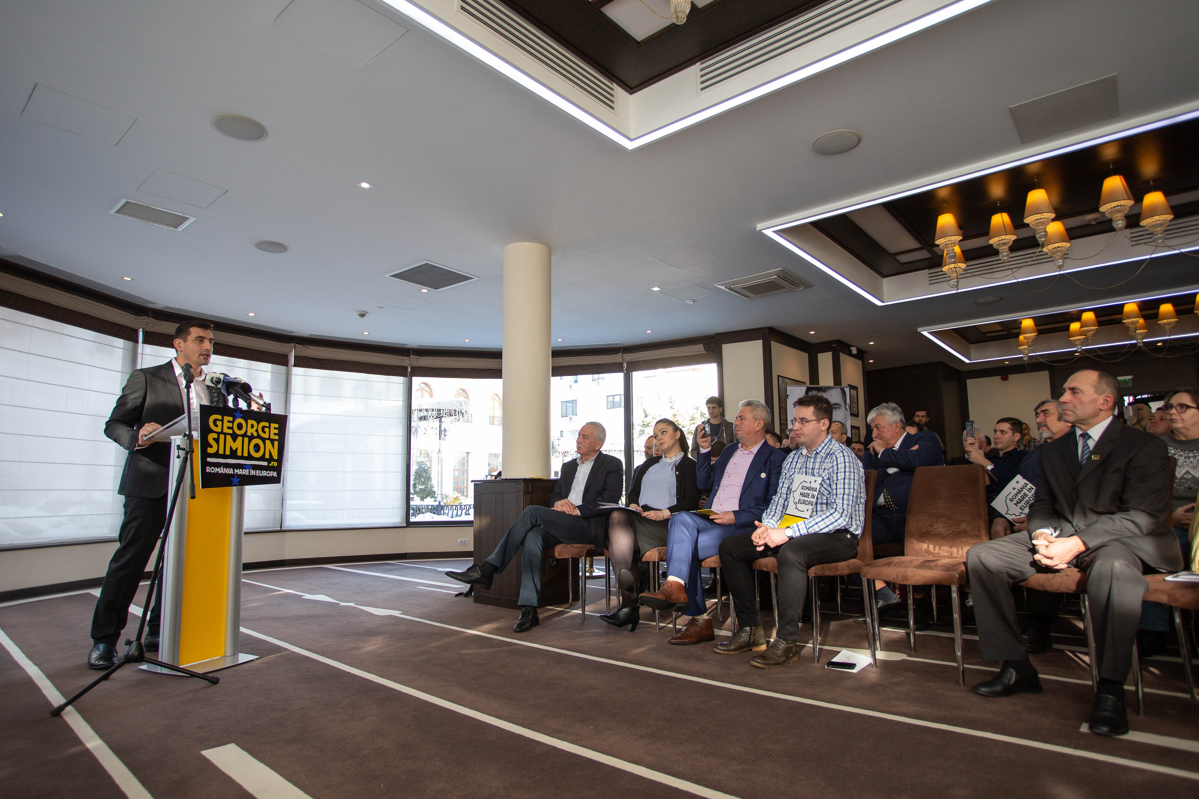 The leader of the unification movement in Romania and Republic of Moldova, George Simion, officially announces his candidacy for the 2019 European Parliament elections, under the slogan "România Mare în Europa".